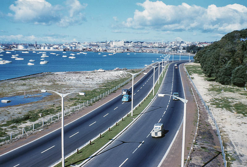 The Auckland Northern Motorway between the Auckland Harbour Bridge and central Auckland city. Taken 1 May 1960, 11 months after the motorway and the bridge opened.